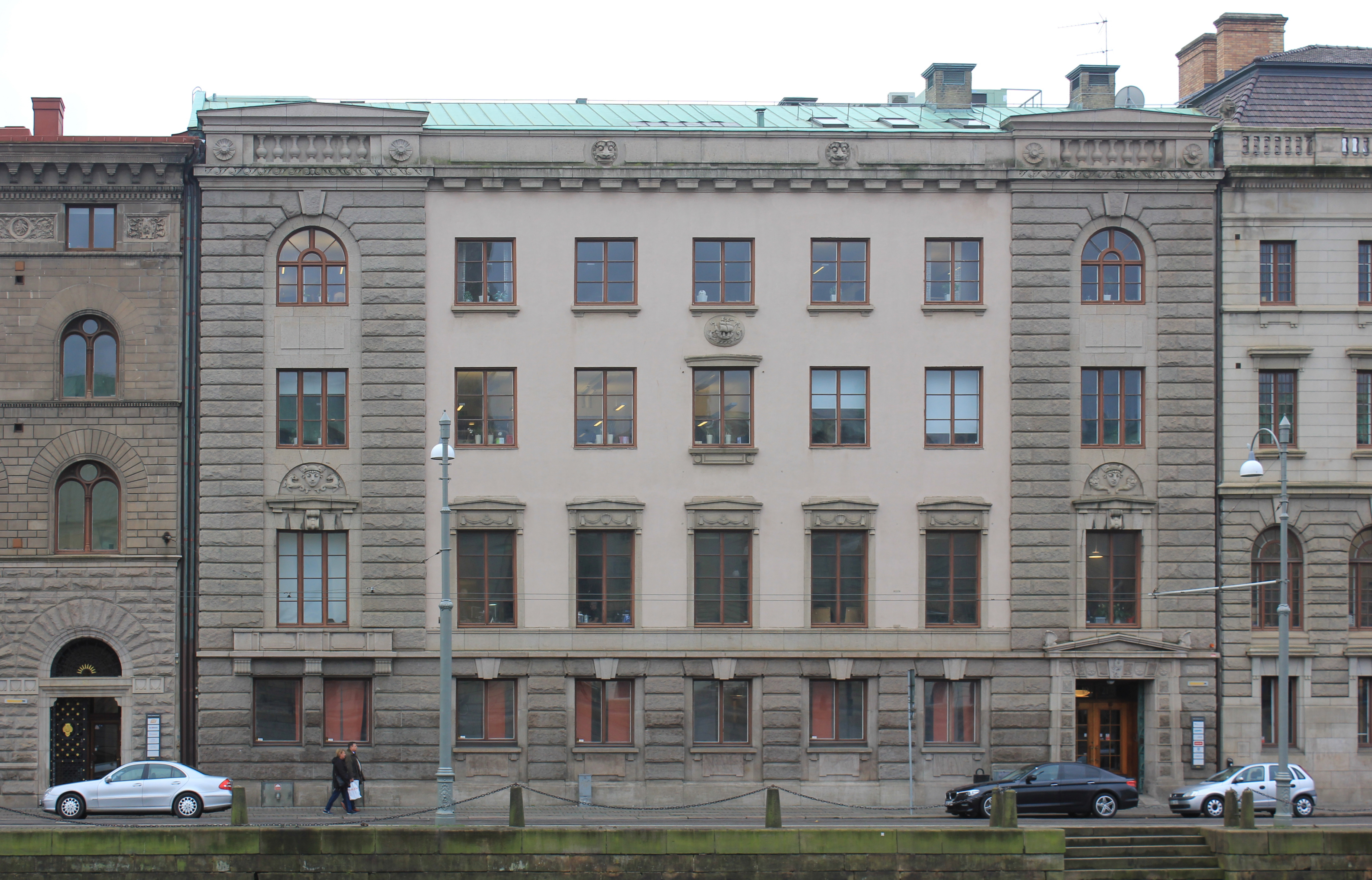 Gothenburg - Handelsbank building